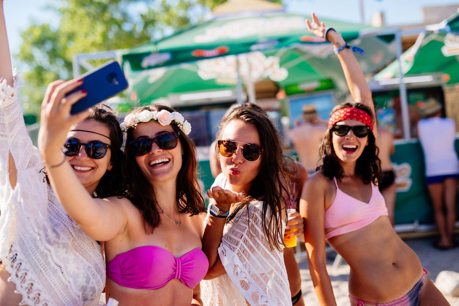 Crowd at Sea Dance Festival 2017